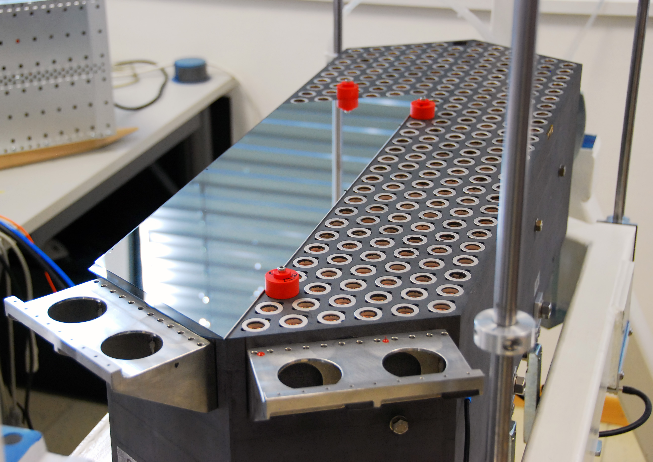 This picture shows a prototype of part of the adaptive support system for the M4 mirror of the E-ELT. It is equivalent in size to 1/14th of the final M4 mirror. The prototype has 350 actuators and co-located sensors. A small section of the thin mirror shell is mounted on the left part of the prototype in the picture. On the right the reference surface is visible as well as the sensors. The actuators are positioned inside the holes of the reference surface. This prototype system has shown very good performance, in line with the challenging requirements for M4.